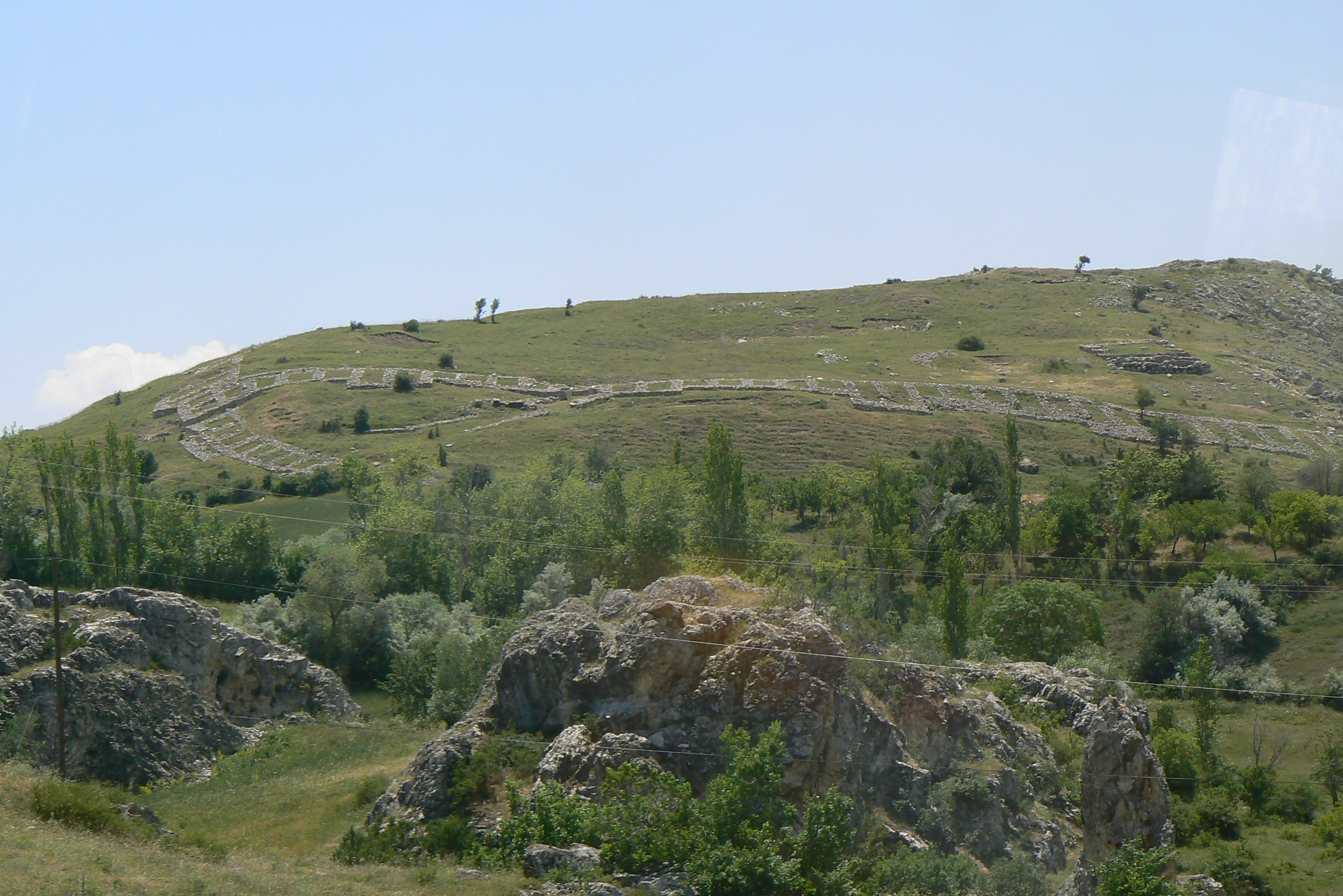 Ruins of the fortified city wall, Büyükkaya, Hattusa, Turkey